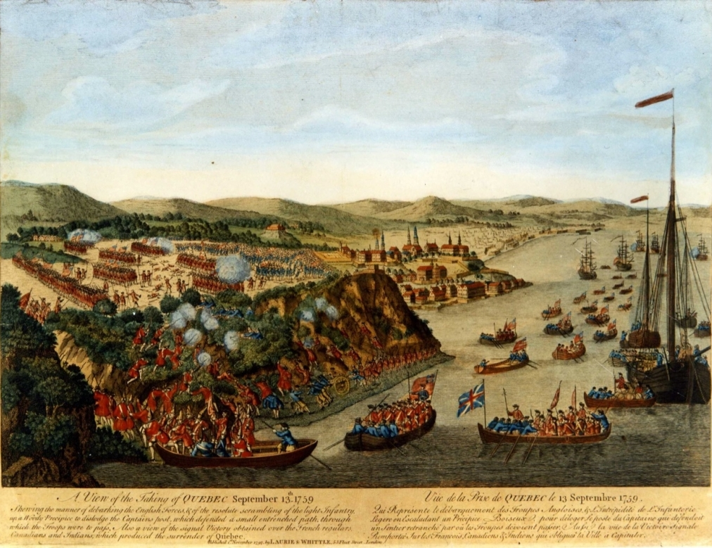 This 1797 engraving is based on a sketch made by Hervey Smyth, General Wolfe's aide-de-camp during the siege of Quebec. A view of the taking of Quebec, 13th September 1759.